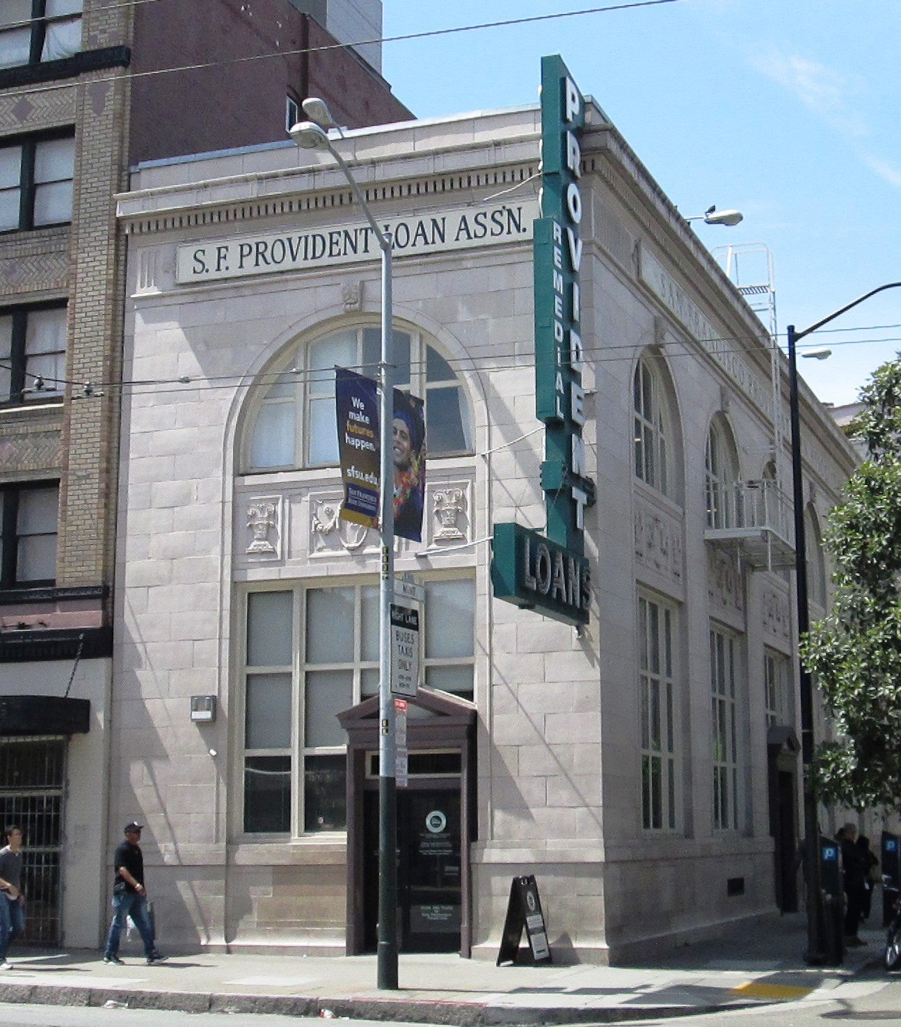 In 1912, prominent civic, financial and social leaders in San Francisco – the Hellman, Crocker, and Fleishhacker families were represented – founded the San Francisco Remedial Loan Association based on the model of the Provident Loan Society of New York. The organization changed its name to the San Francisco Provident Loan Association, and is still located in its original historic landmark building – also based on the New York society's building – at 932 Mission Street in the South of Market (SoMa) neighborhood of the city. Unlike the New York society, the San Francisco association is family-owned and operated. The business was bought by Frank Rusalem in 1954 and sold to Robert Chait in 1965. Since then, three generations of the Chait family have run the concern. In 2012, 66 Mint, an estate-jewelry business, was added, and a "Silicon Valley Diamond and Jewelry Buyers" location in Menlo Park, California was opened.(Sources: "Our History" San Francisco Provident Loan Association website and Brawn, Tony (July 17, 2015) "66 Mint: a family legacy in S.F., and now Silicon Valley" San Francisco Chronicle)